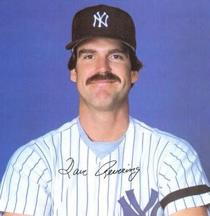 Professional baseball player Dave Revering during the 1981 season as a member of the New York Yankees.